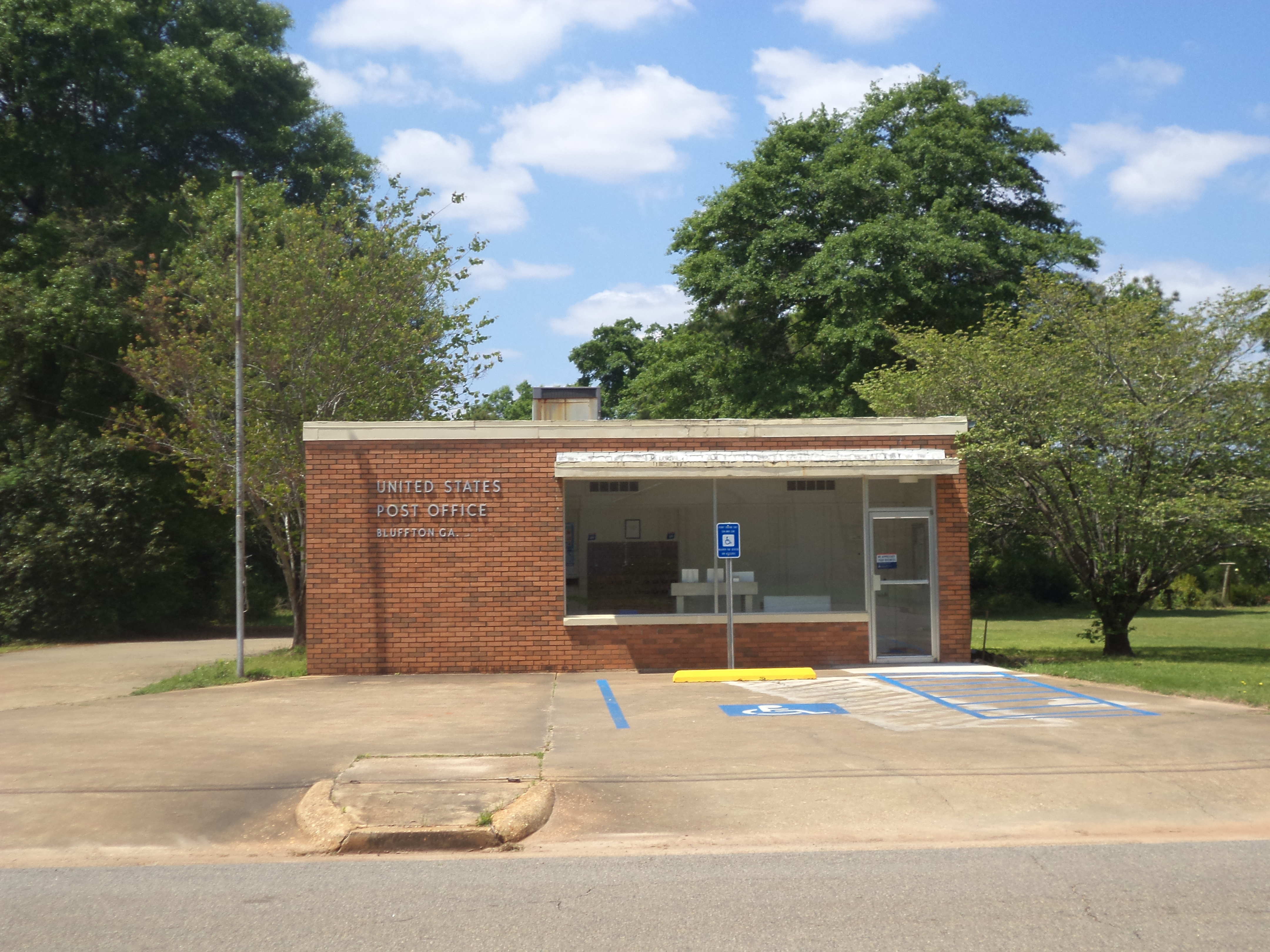 Bluffton Post Office, 105 Pine St N, Bluffton, Clay County, Georgia